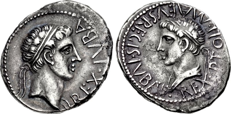 KINGS of MAURETANIA. Juba II, with Ptolemy. 25 BC-AD 24. AR Denarius (17mm, 3.34 g, 6h). Caesarea mint. REX • IVBA, diademed head of Juba right / REX • PTOLEMAEVS • REGIS • IVBÆ F •, diademed and draped bust of Ptolemy left. MAA 111; Mazard 379; Müller, Afrique –; SNG Copenhagen –. Good VF, toned. Very rare.